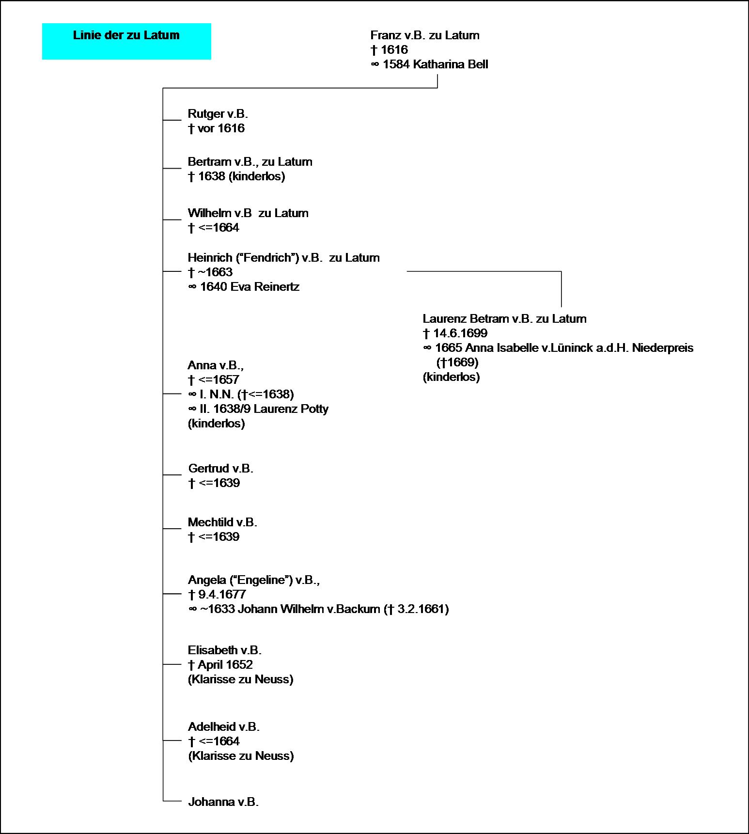 Pedigree of noble Bawir family (lineage of House Latum)